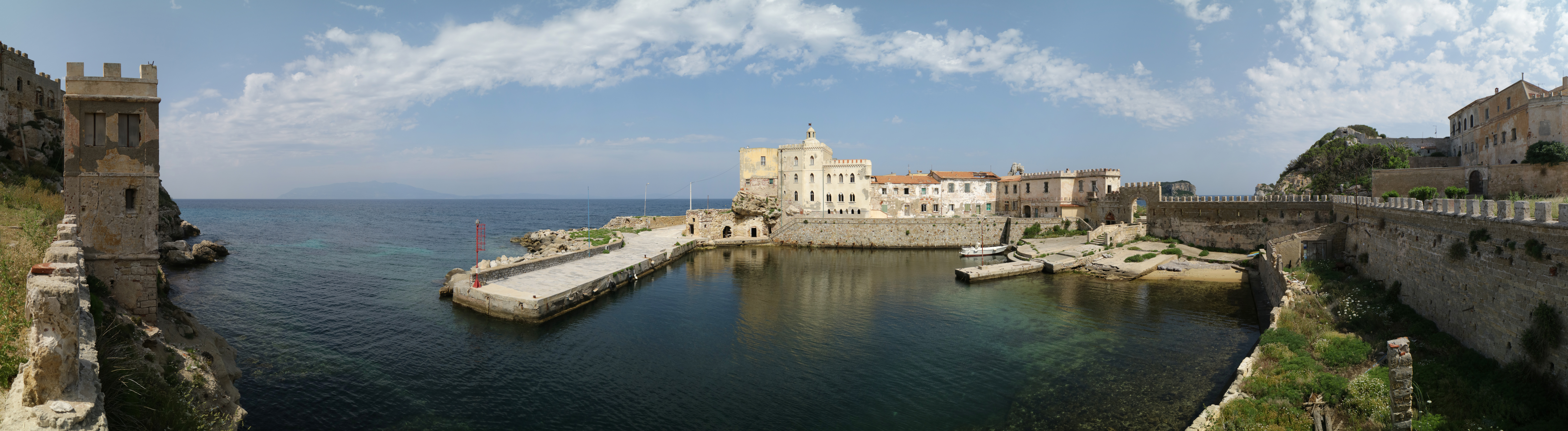 Vecchio Porto on Pianosa Island.Panoramic image in Mercator projection created with Hugin software.